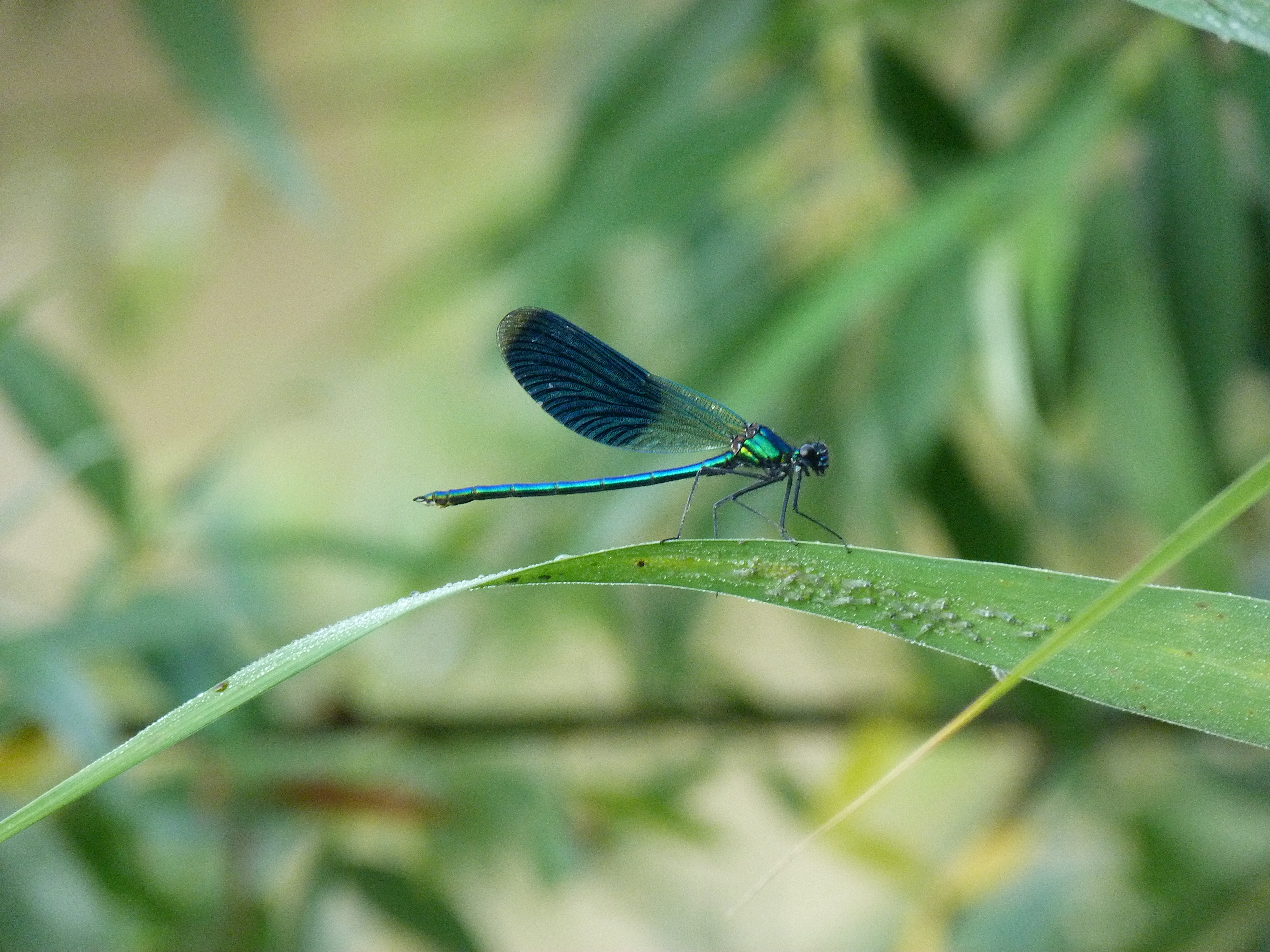 Live on the 20th of June, 2013. Székelykeresztúr. Küküllő river. At 6.18 I reached Küküllő street, where I came all the way down here. The rising Sun warmed the landscape. Trubled waters of the river were hurrying to the West. A felvételek 2013. Június 20 –án csütörtökön készültek Székelykeresztúron. Hajnalban, 6.18 –kor érkeztem a főuton a Küküllő utcához, ahol le lehet menni a Küküllőhöz. A jelenlegi Liedl áruház mögötti területen konyhakertek, kis házak, régi és új blokképületek. A Küküllőt galériaerdő kiséri. Túlsó partján legelők. A felkelő Nap fénye lassan melegítette át a tájat. Sárgarigók köszöntötték az új napot. ©© Published under Creative Commons in the Metapolisz DVD line. All of the photos and vids in the Metapolisz DVD line are under Creative Commons and can be used even for commercial – for profit – purposes. Recommended Citation Derzsi Elekes Andor: Metapolisz DVD line Forrás: Székely huszárok Time: mashine time + 1 hour